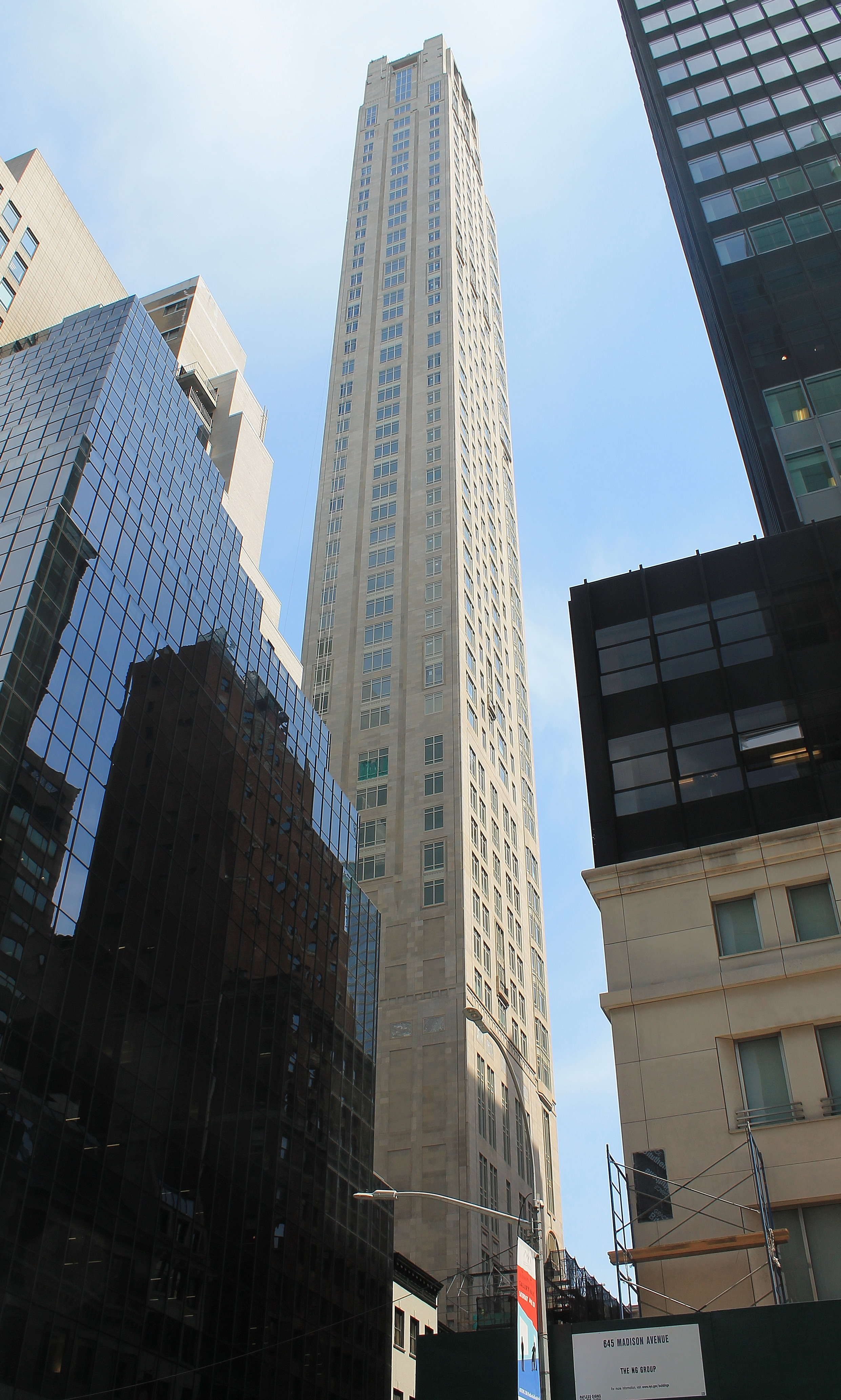 View of 520 Park Avenue, April 13 2018.